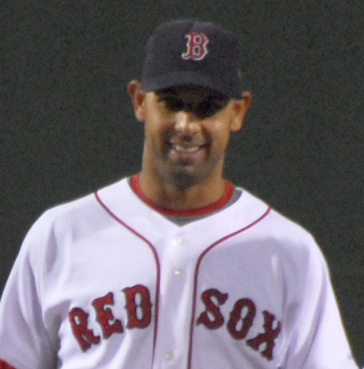 Kevin Youkilis(left) , Alex Cora(center), and Dustin Pedroia